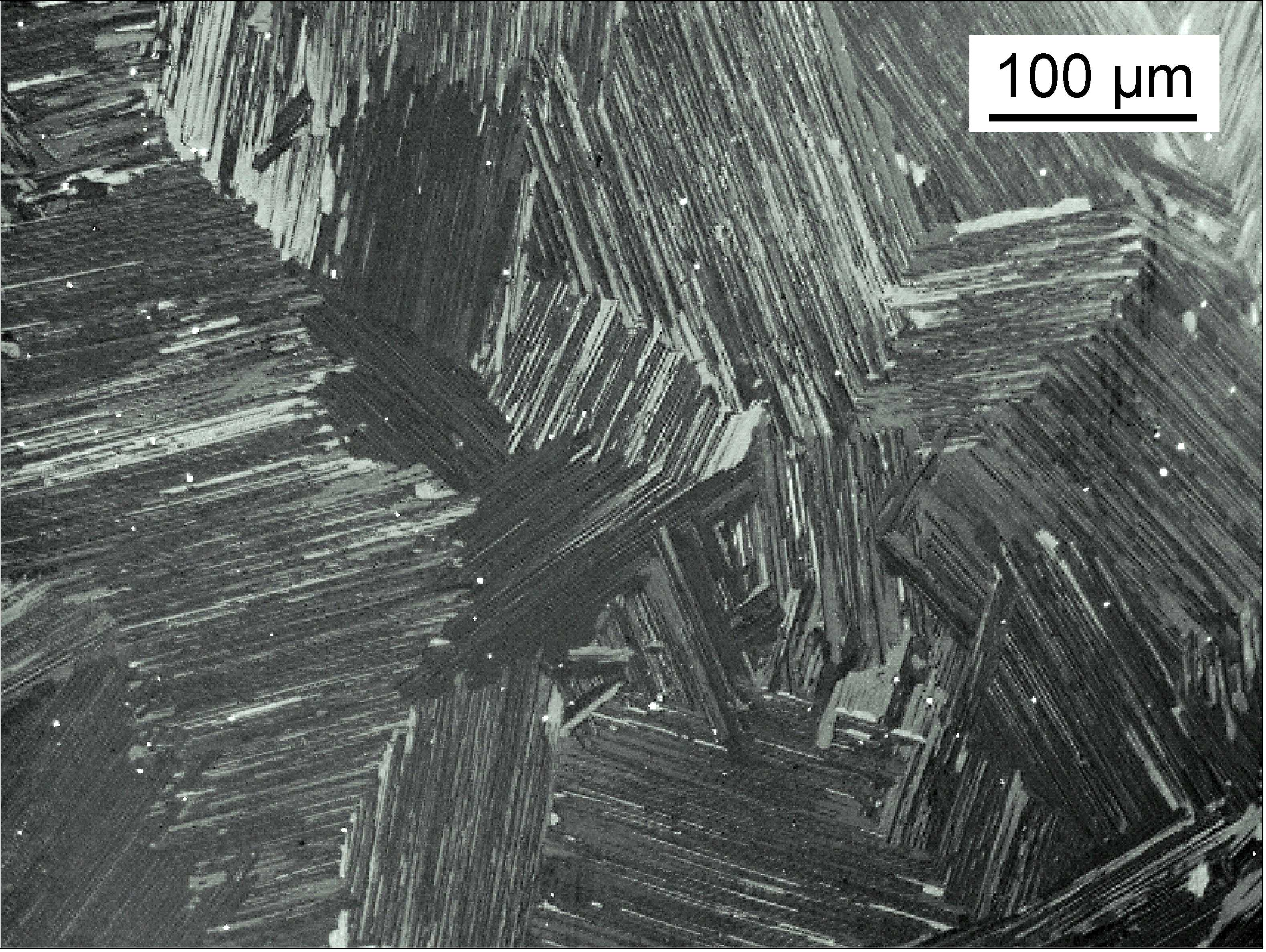 Microstructure of TiAl alloy, optical metallography